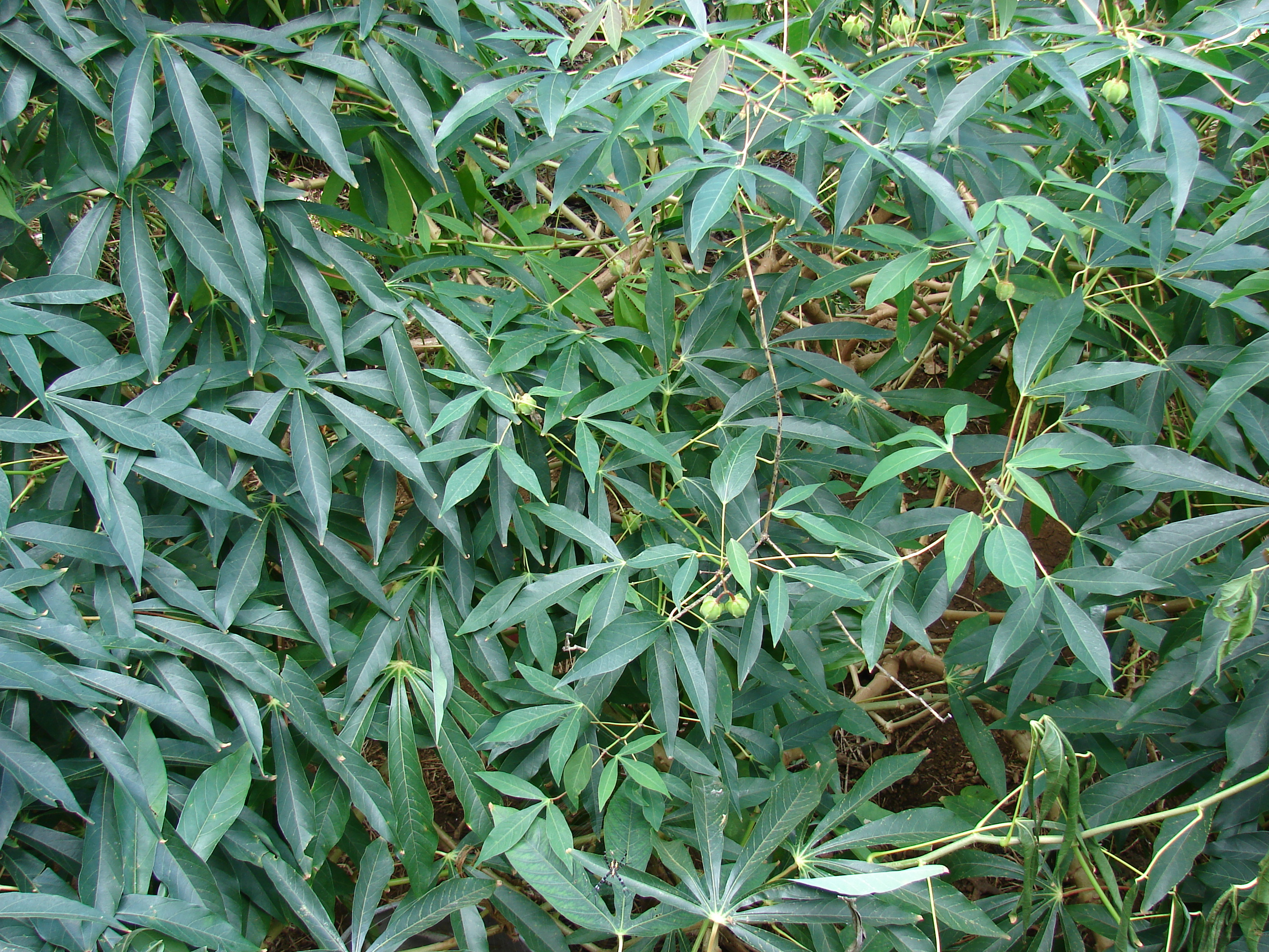 Manihot esculenta (habit). Location: Maui, Maui Grown Market Haiku